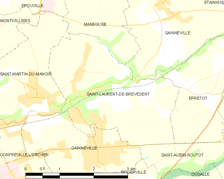 Map of French municipality Saint-Laurent-de-Brèvedent